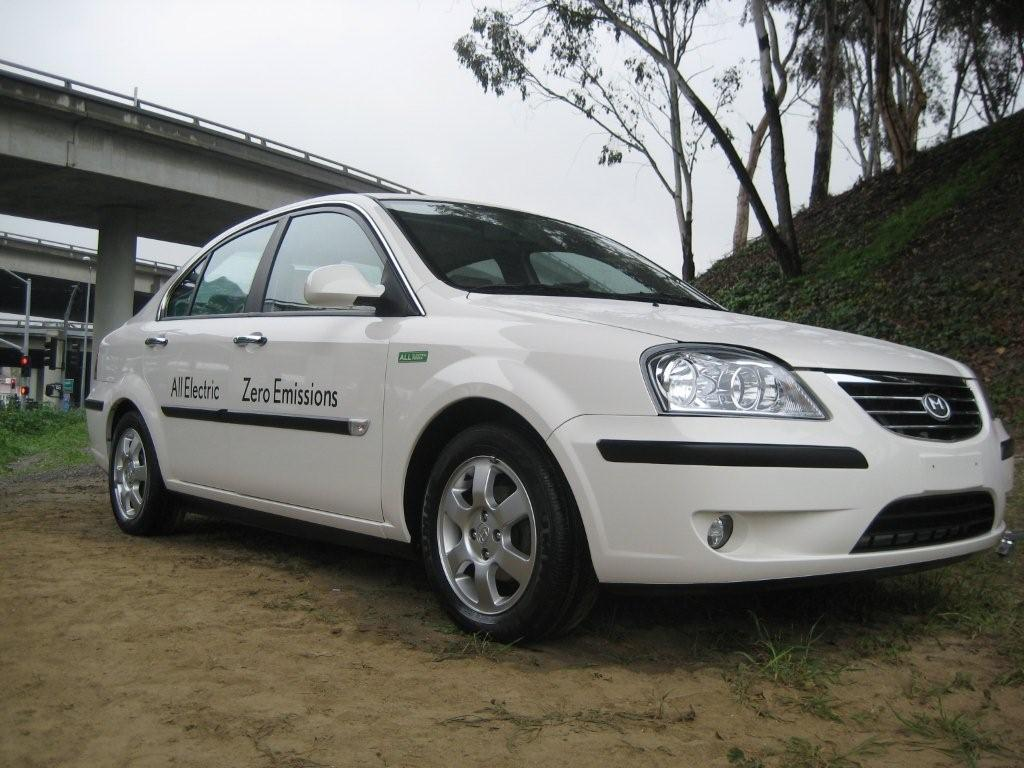 Miles XS500 (Miles Electric Vehicles, a manufacturer and distributor of all-electric vehicles)